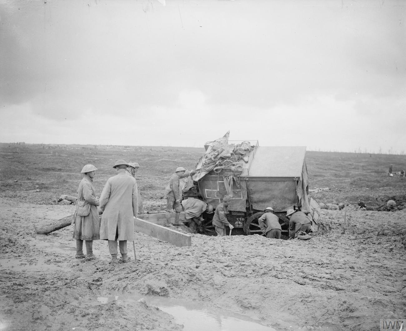 The Battle of the Somme, July-november 1916 Digging out a horse ambulance stuck in the mud near Guillemont. The ambulance has the sign of the 20th (Light) Division. October 1916.